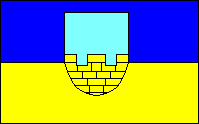 The flag of Upper Lusatia